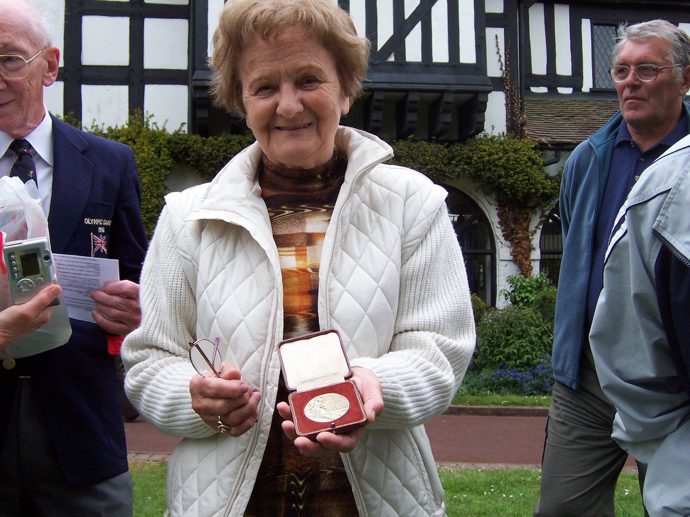 Trip to history of Olympic games.